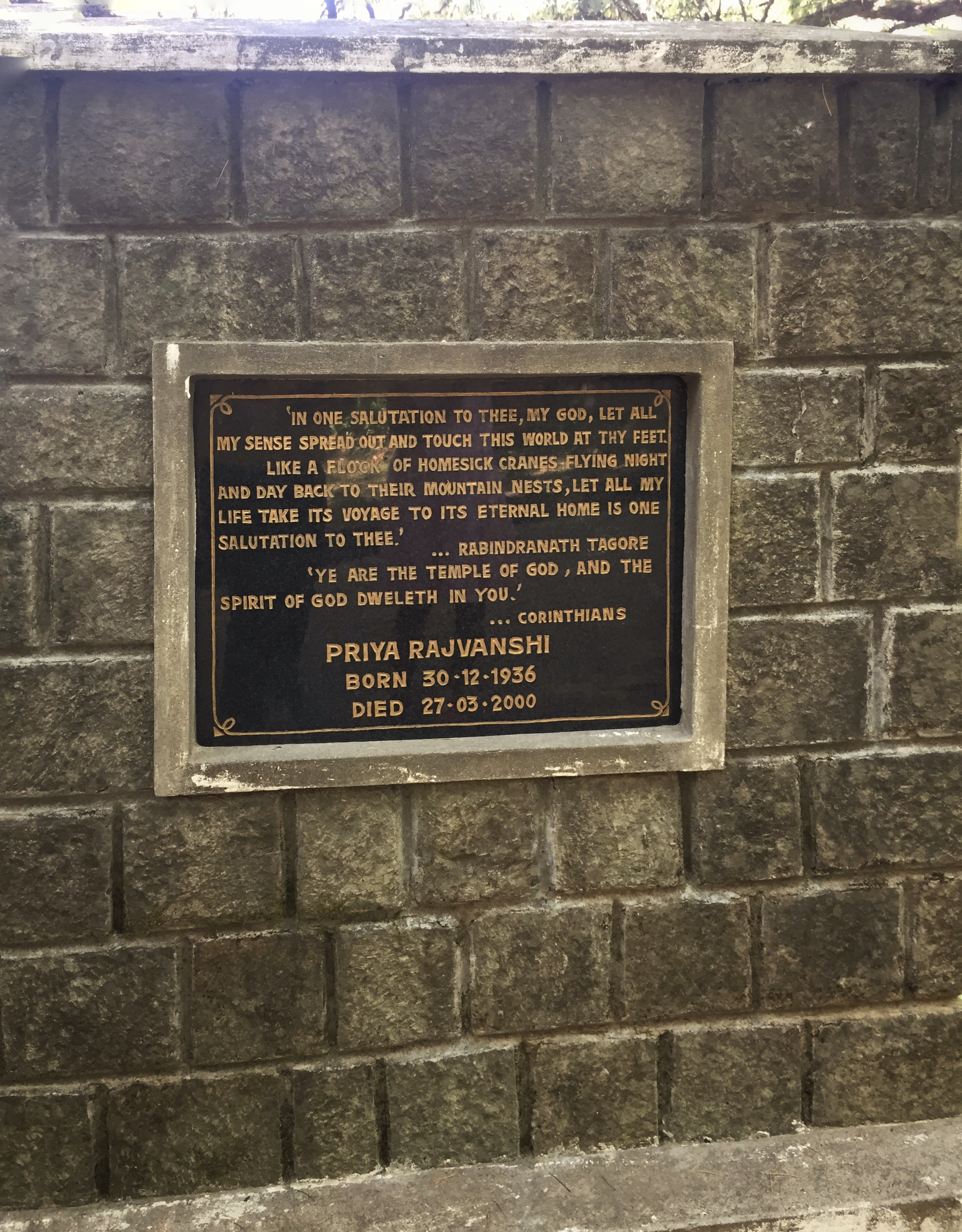 Memorial of Bollywood actress Priya Rajvanshi, at St John Church in the Wilderness, Forsythganj, Dharamsala.